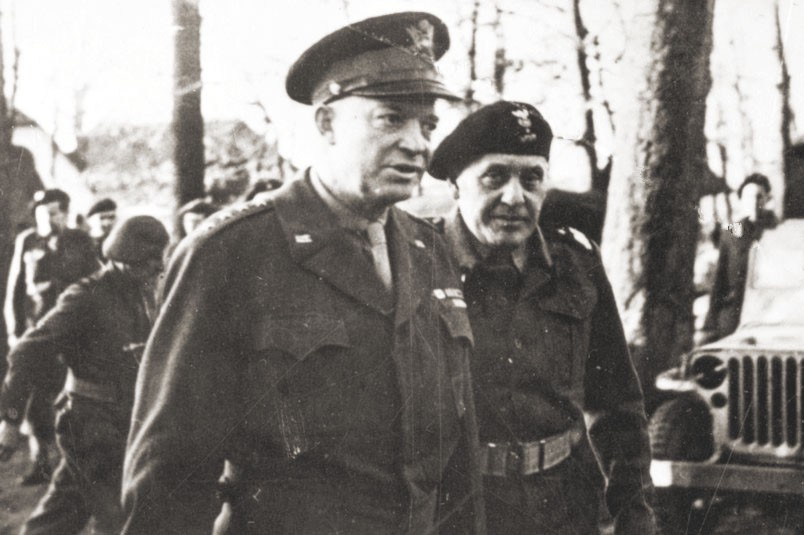 Gen. Dwight Eisenhower visiting Polish 1st Armoured Division. Gen. Stanisław Maczek on the right